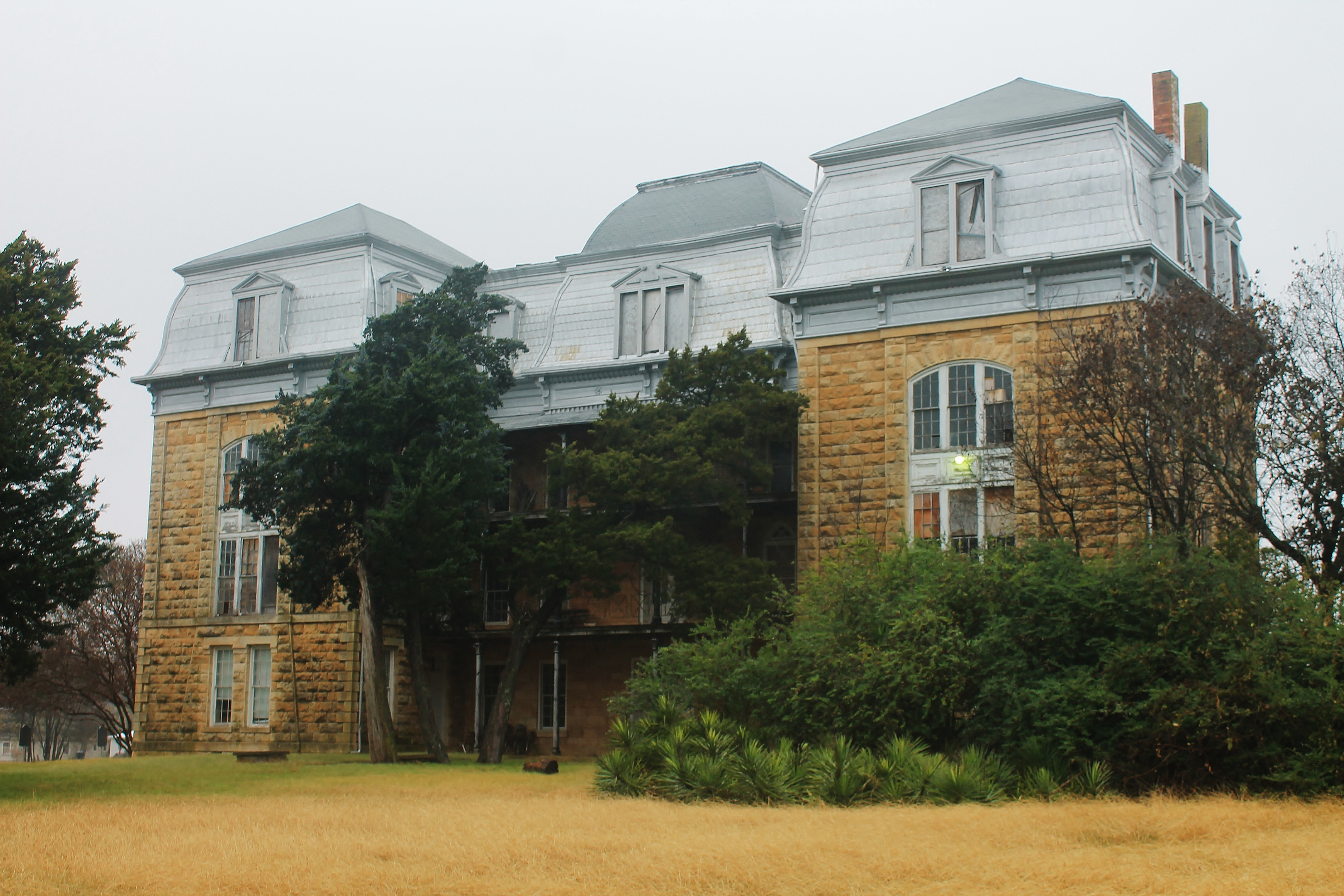 Texas Hall, Trinity University, in Tehuacana, Texas. Also used as Westminster College.